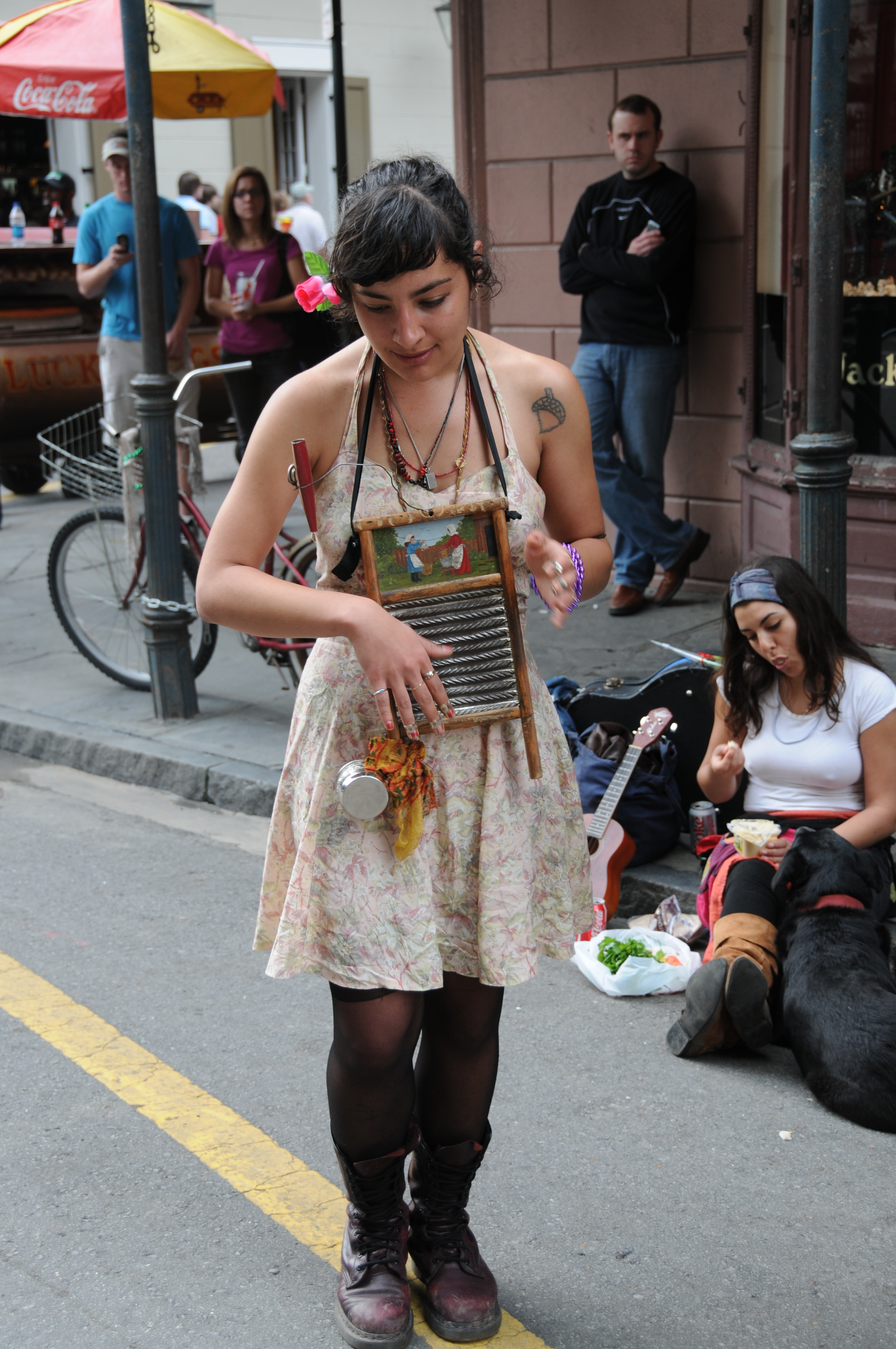 Street performer playing small washboard, New Orleans French Quarter